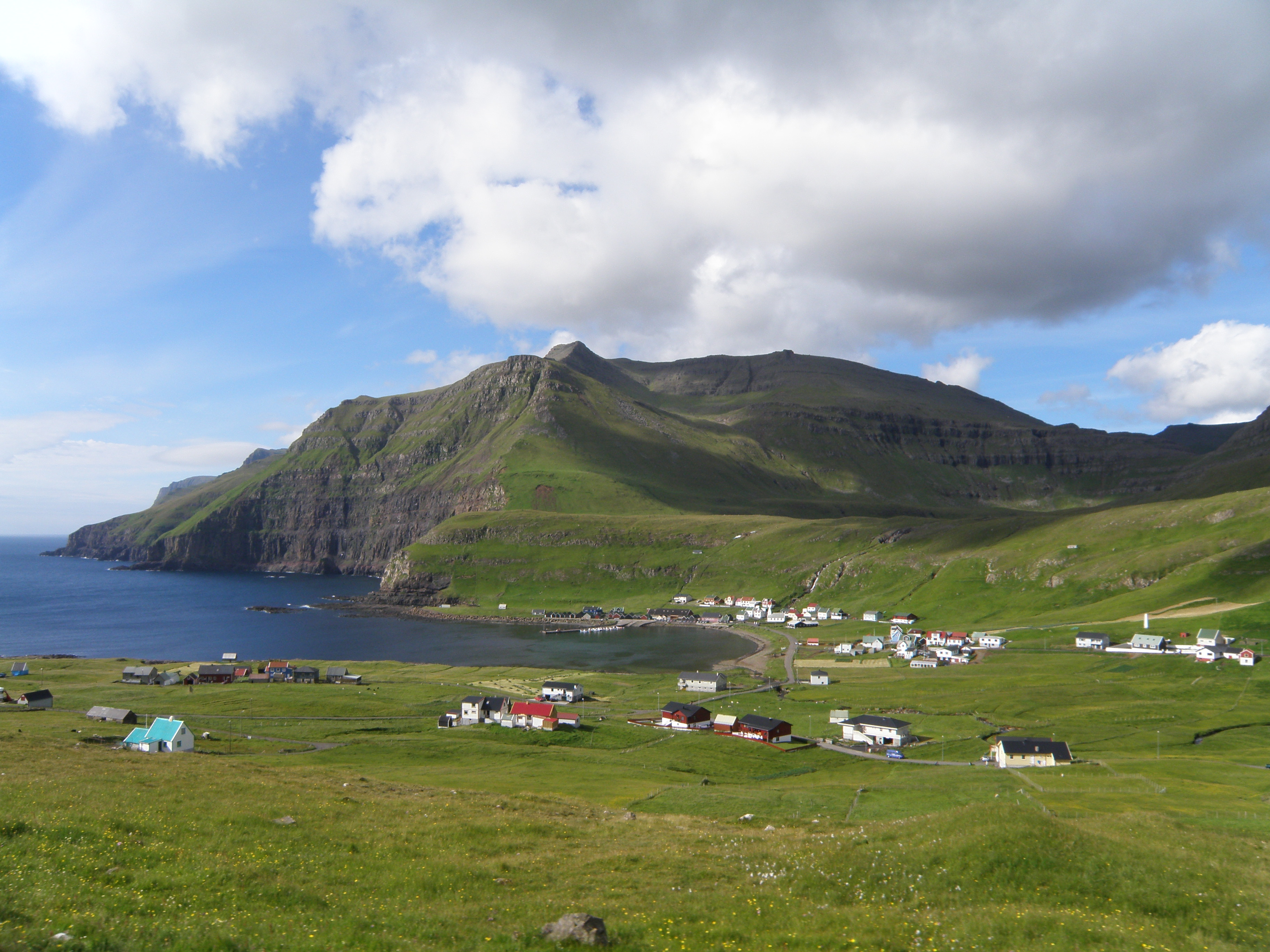 View to Fámjin. Fámjin is a village on the west coast of Suðuroy in the Faroe Islands. This photo was taken in July 2010 from the street above Fámjin. There is only one road to the village, it goes from Øravík on the west coast, the distance is around 9 km., Fámjin.